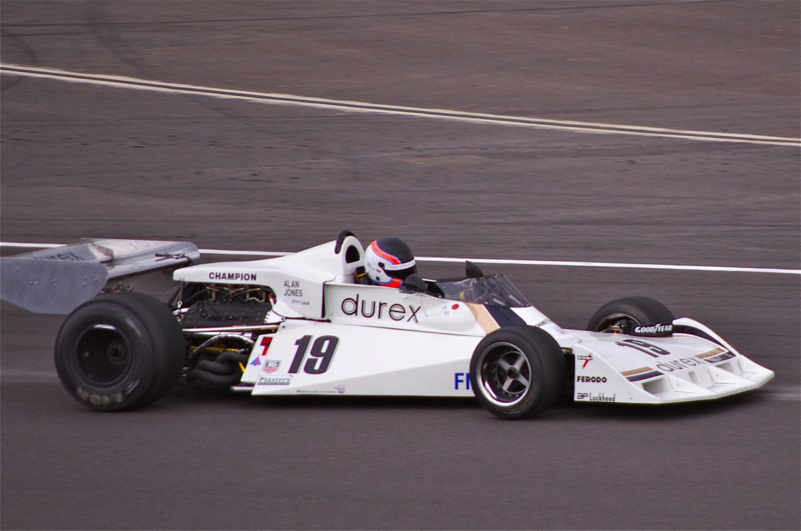 Silverstone Classic 2011